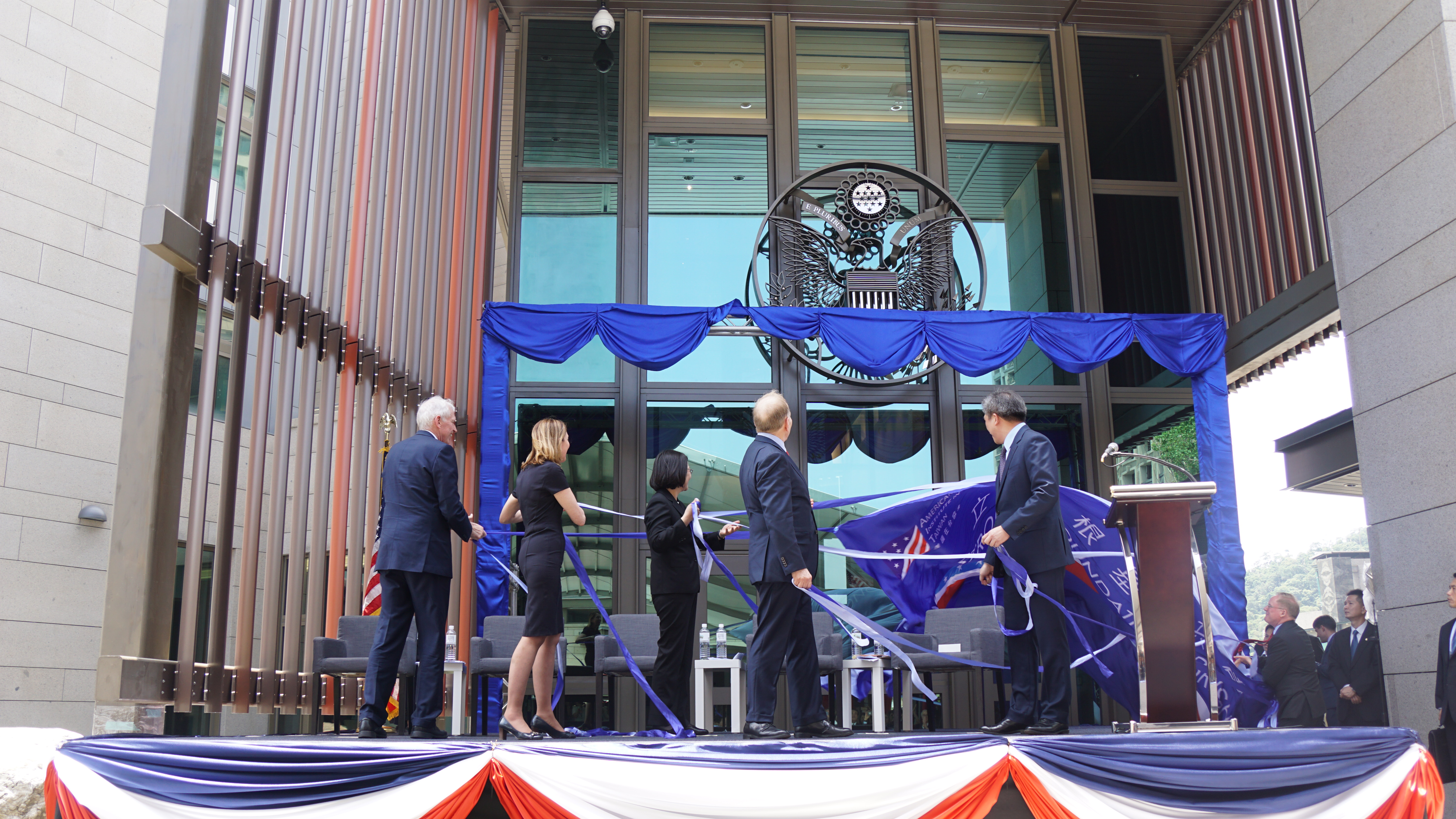 AIT NOC dedication ceremony